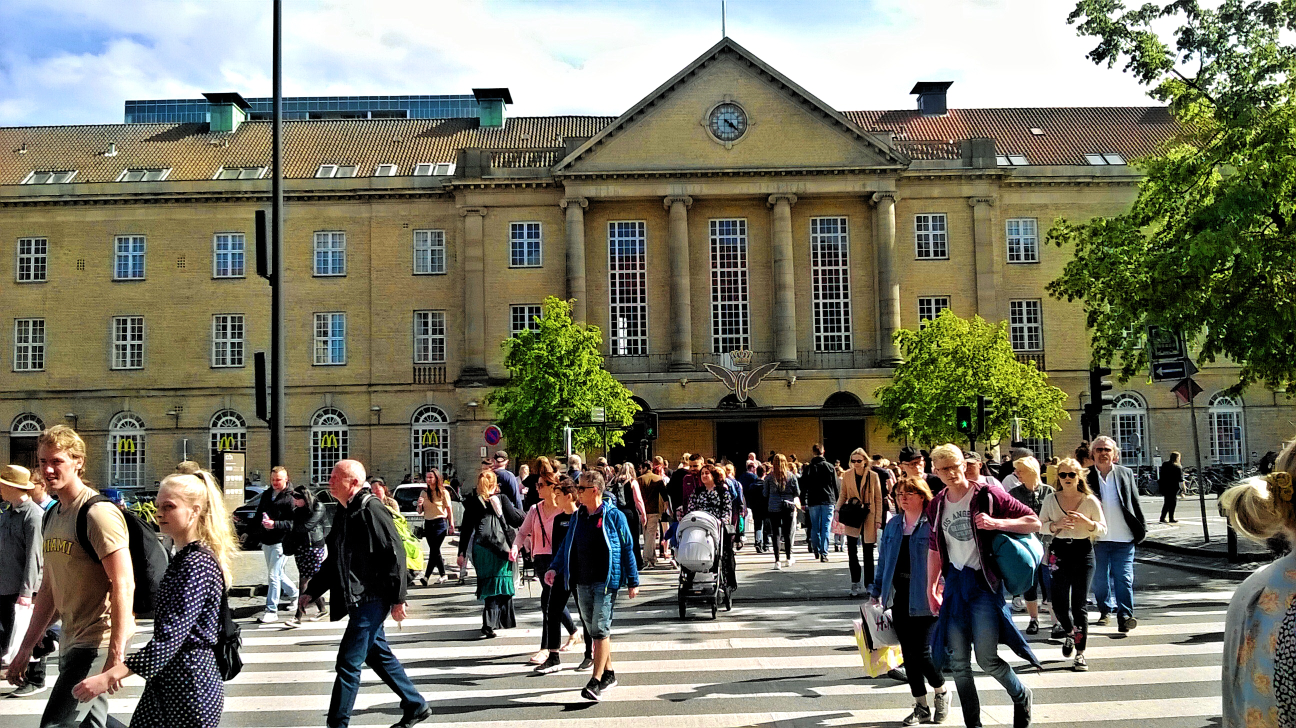 Banegårdspladsen Aarhus med Hovedbanegården. Maj 2019